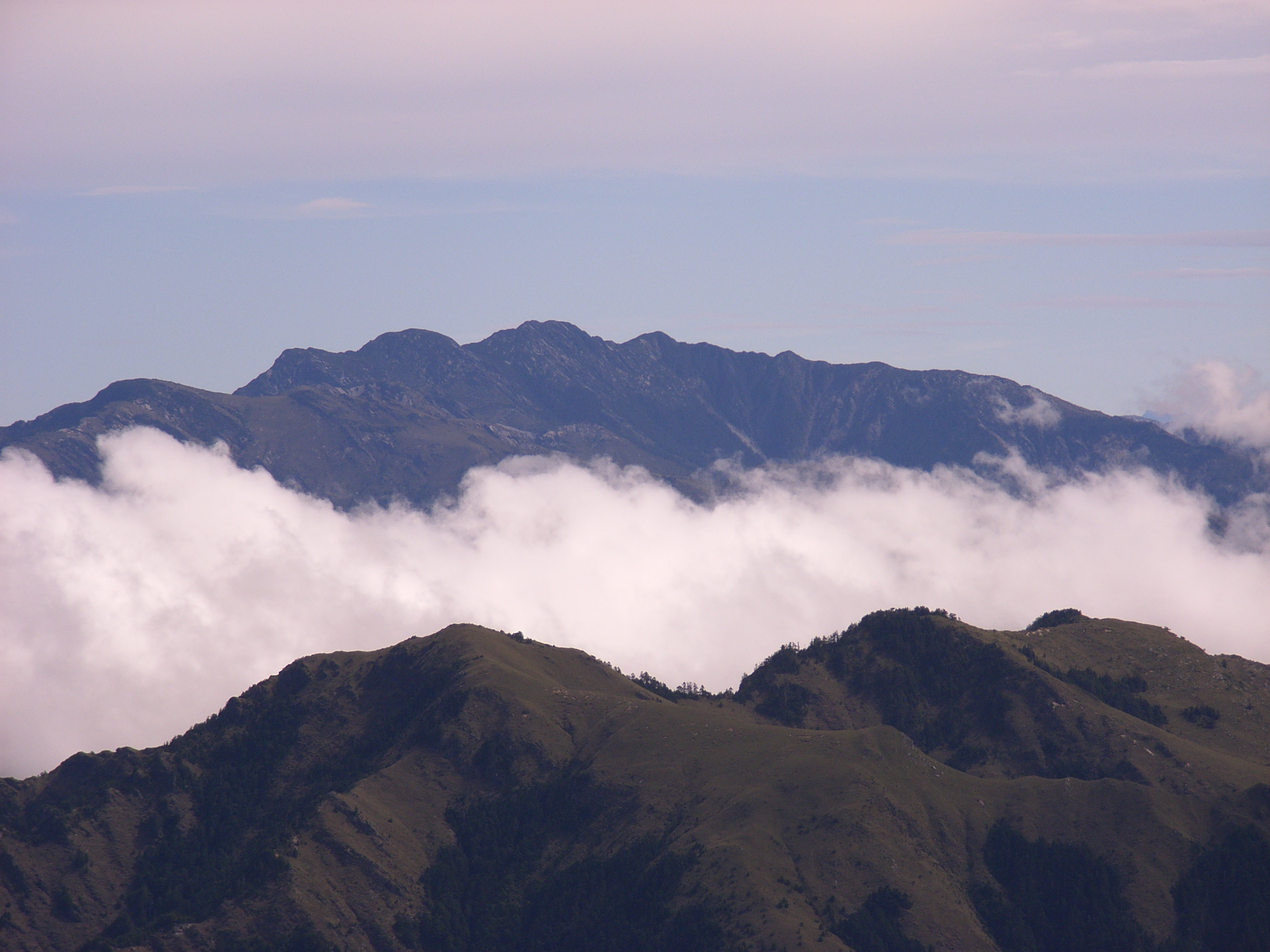 Siougulan Mt. as seen from Giaminghu path (South of Siougulan)